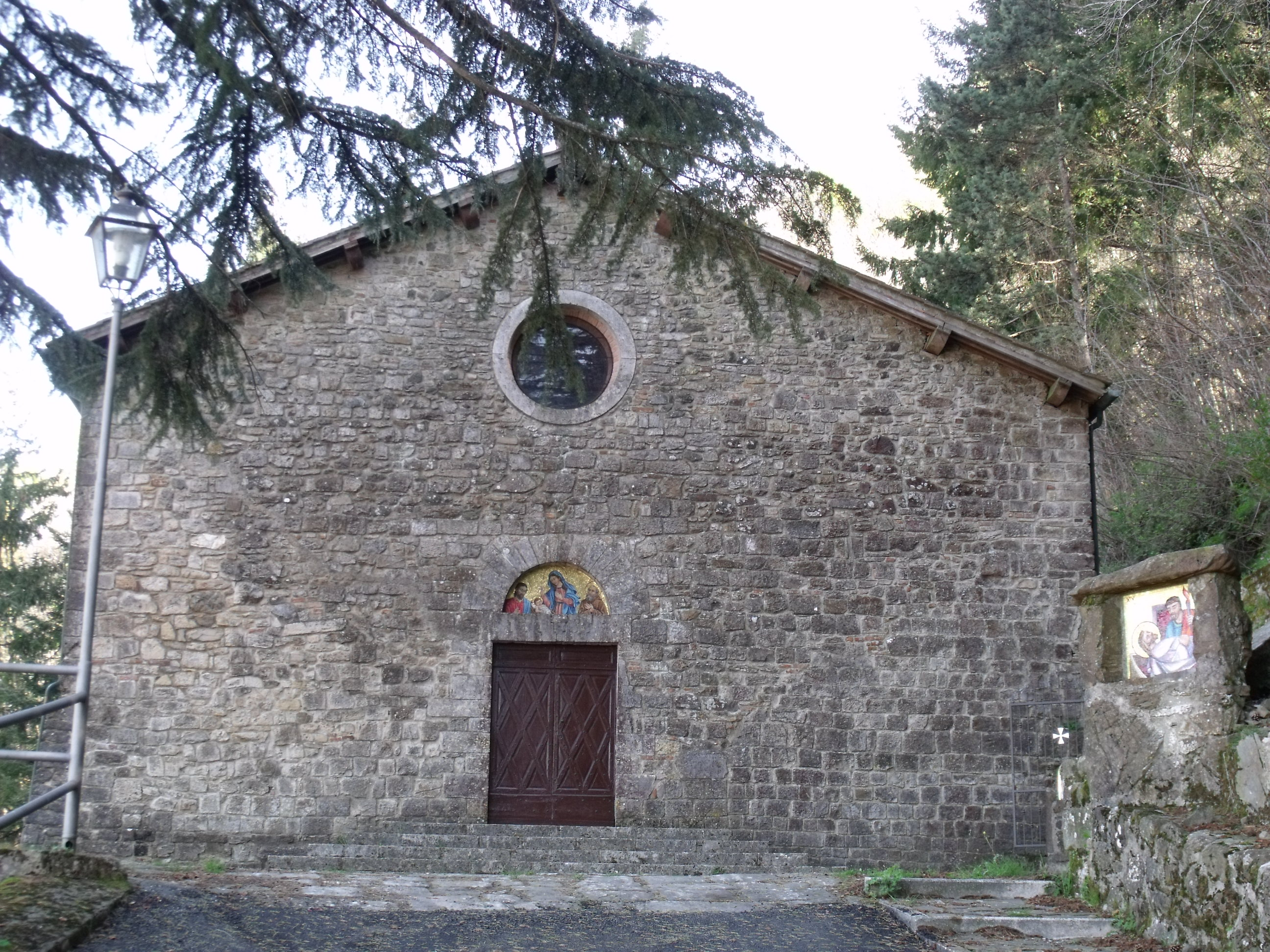 Church / Chiesa di San Giacomo Apostolo in Montieri, Province of Grosseto, Tuscany, Italy